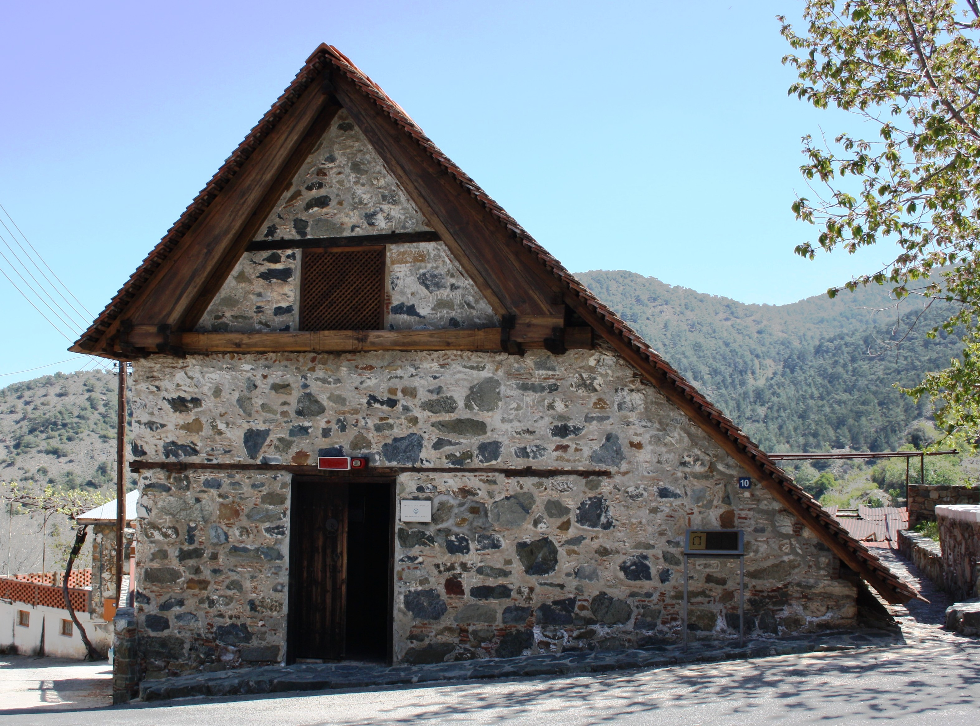 Outside view of the St. Michael church in Pedoulas, Troodos Mountains, Cyprus. Part of the Troodos UNESCO World Heritage